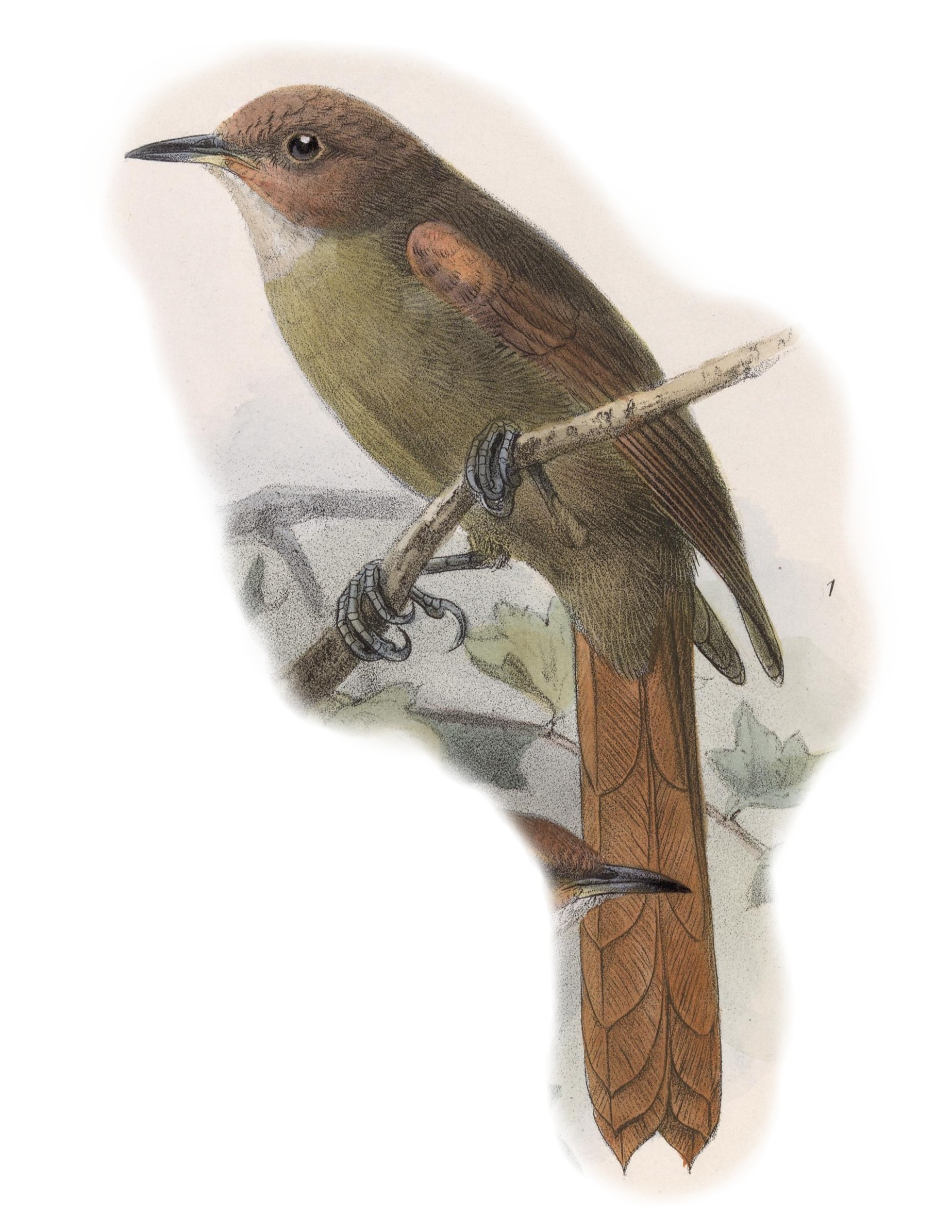 « Synallaxis erythrops » = Cranioleuca erythrops (Red-faced Spinetail)